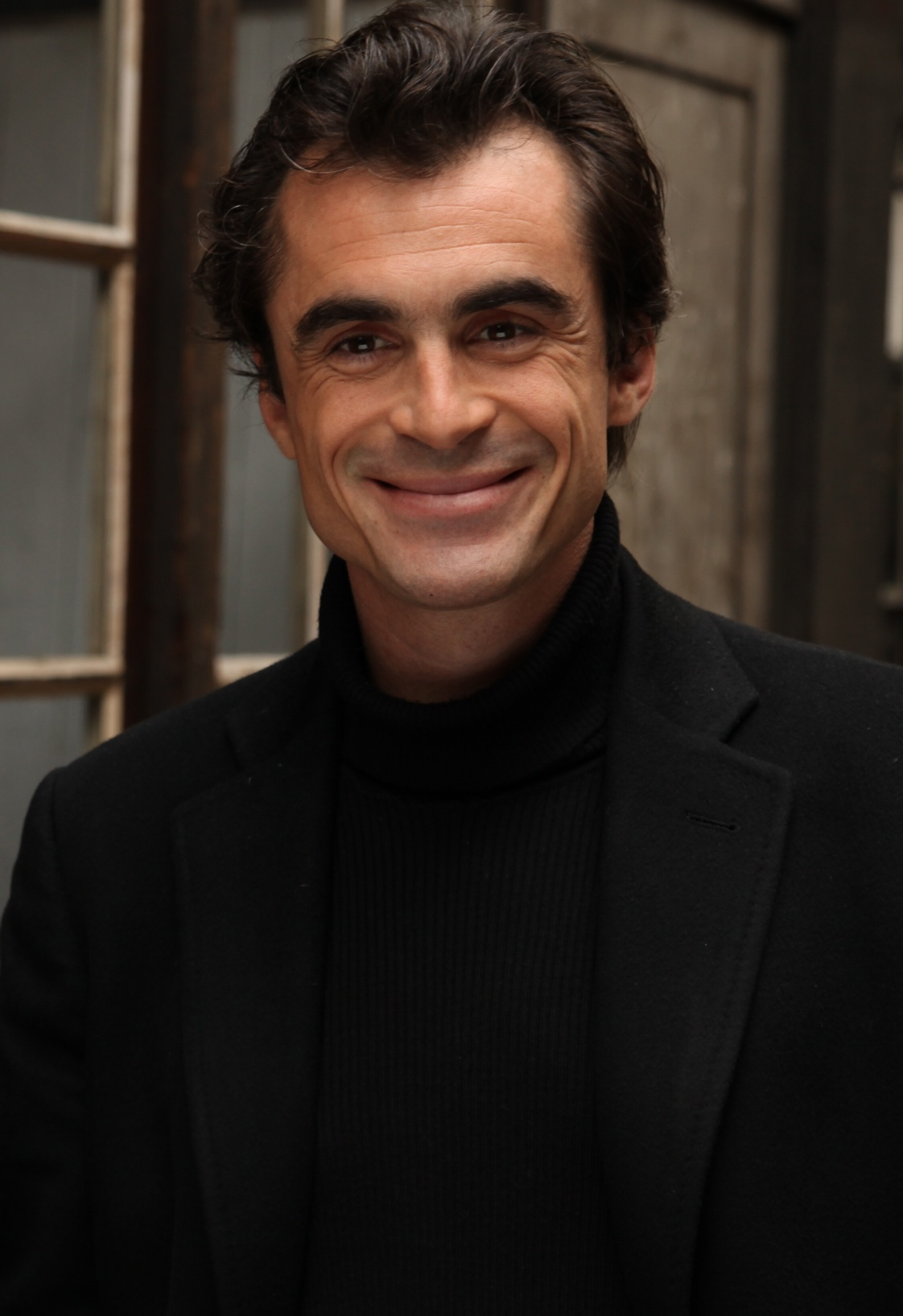 Raphaël ENTHOVEN